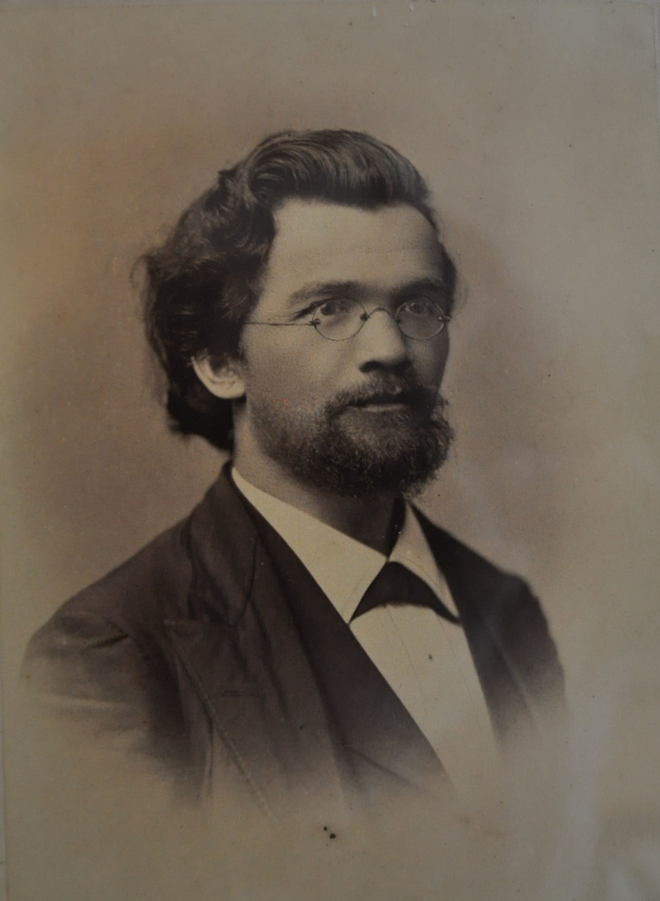 Arnold Dodel-Port um 1880